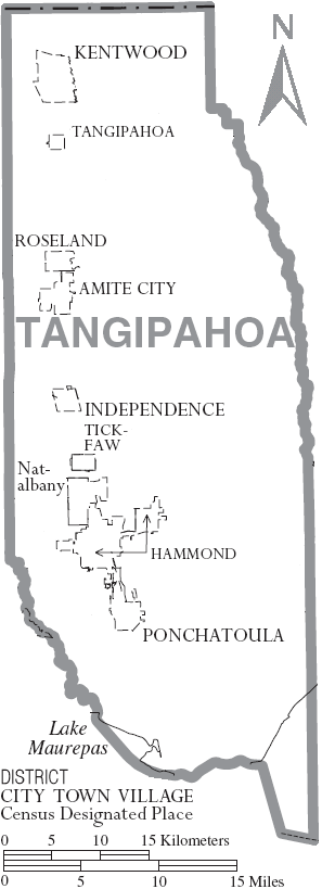 Map of Tangipahoa Parish, Louisiana, United States with municipal boundaries